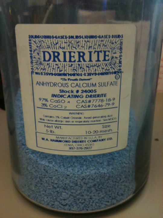 A jar of Drierite brand dessicant. This is anhydrous calcium sulphate with a small amount of cobalt chloride added as an indicator.